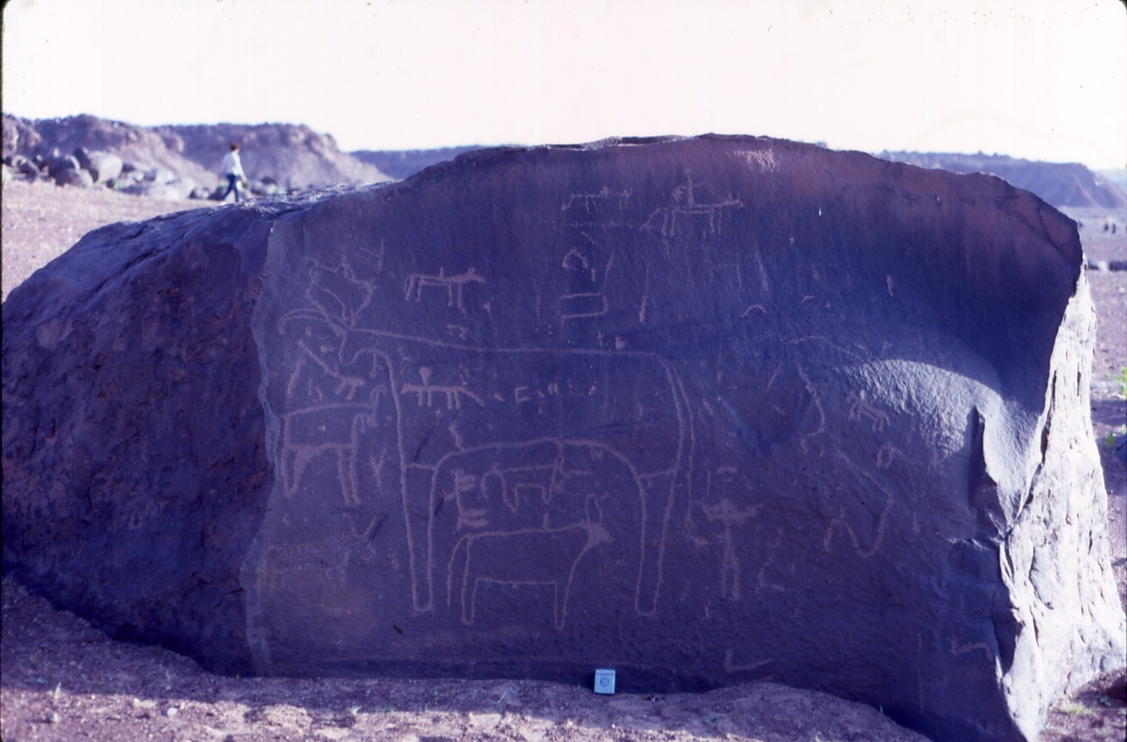 Rock art in the Sahara Desert, Mauritania. Pack of cigarettes as scale.